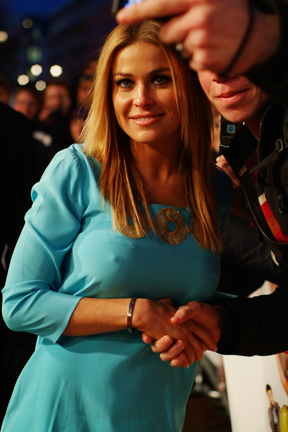 Carmen Electra at I want Candy London Movie Premiere.